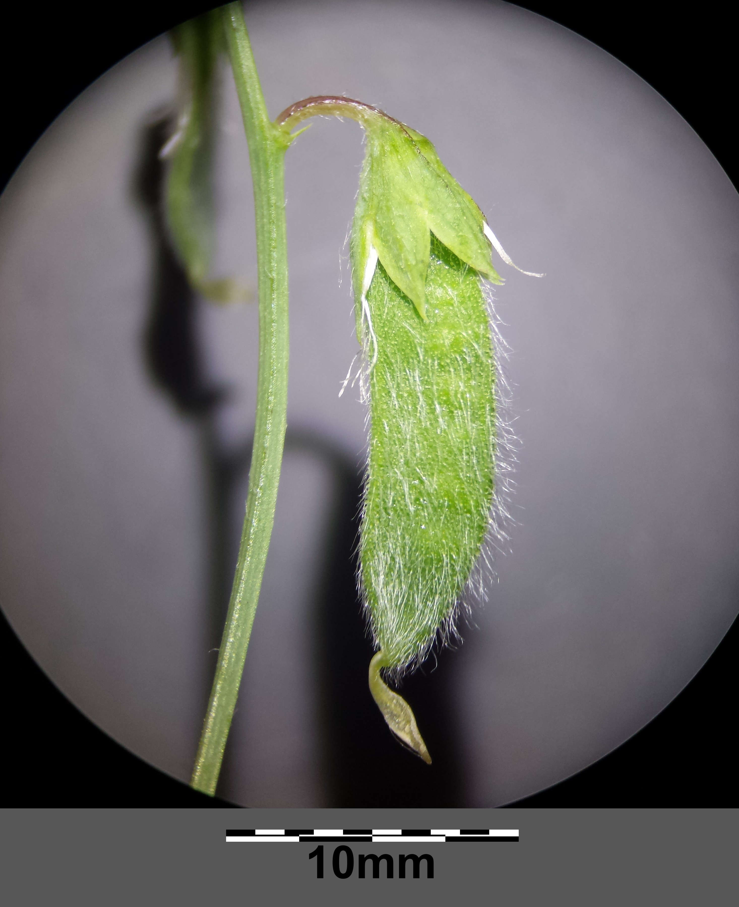 Frucht Taxonym: Lathyrus hirsutus ss Fischer et al. EfÖLS 2008 ISBN 978-3-85474-187-9 Location: Burgstall to the North of Großmugl, district Korneuburg, Lower Austria - 330 m a.s.l. Habitat: wayside